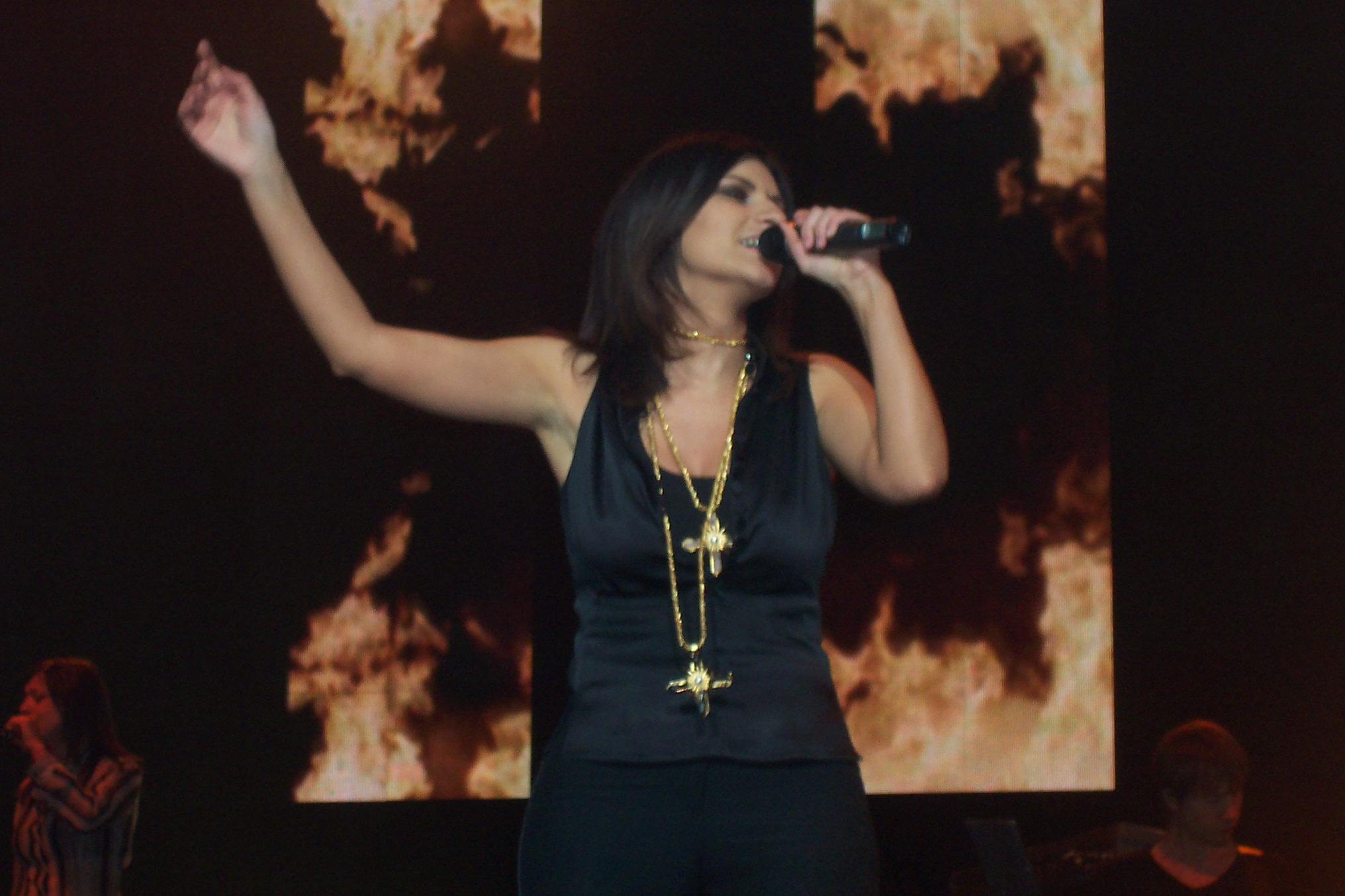 Laura Pausini, World Tour 2005, F. National, Bruxelles, 04-03-2005